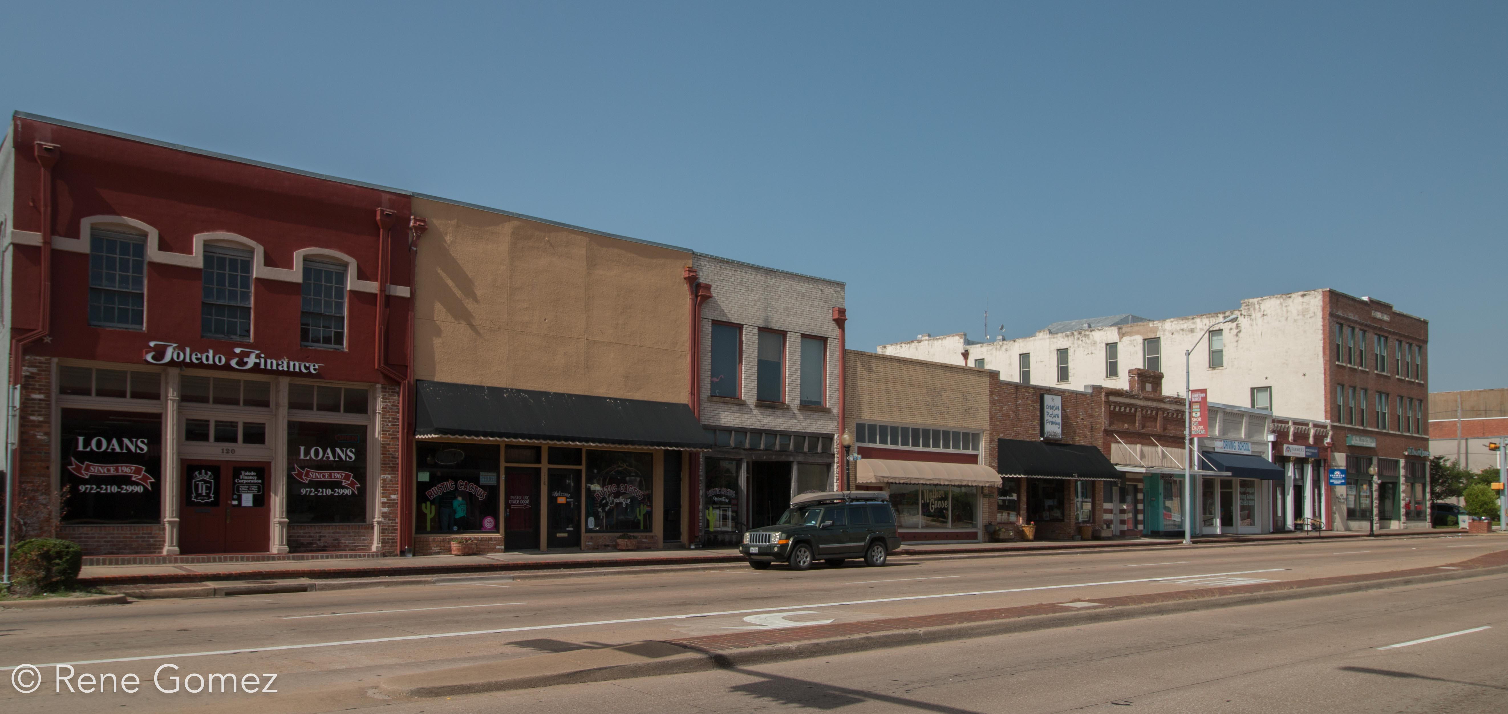 Downtown Terrell, Texas